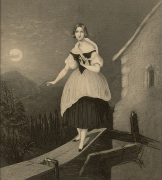 Jenny Lind in La sonambula, 1831